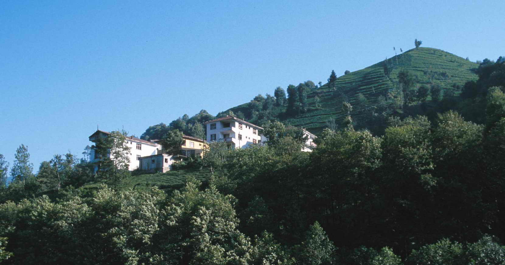 Tea plantations on the slopes S of Rize (Ikizdere valley).- G. Pils: Gerhard Pils